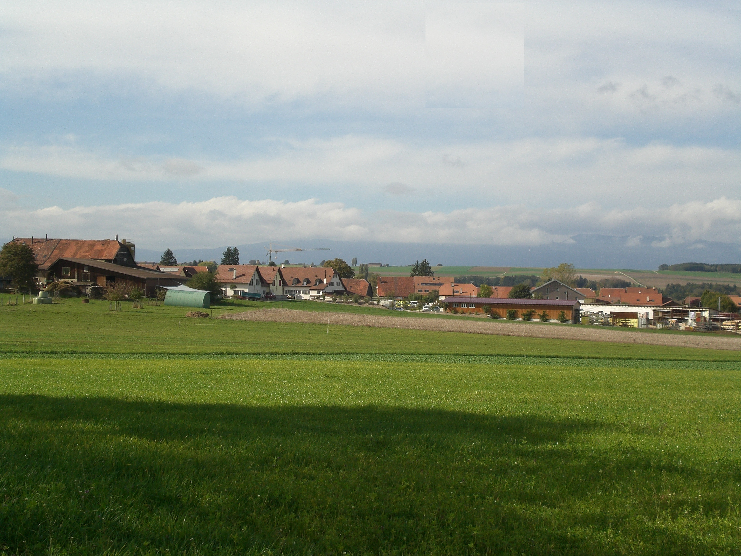 View of the village of Fey, canton of Vaud, Switzerland